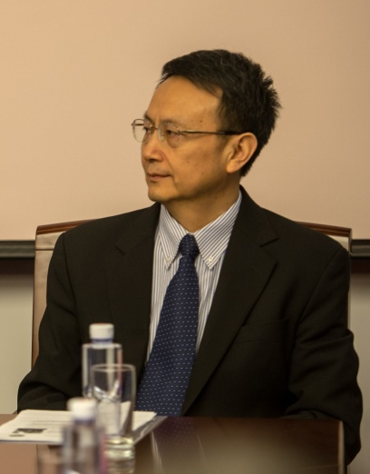 U.S. Army Chief of Staff, Gen. Ray Odierno and Peking University Associate Dean, Dr Qingguo Jia, talk with students and faculty from the Peking University, International Studies in Beijing, China, Feb. 21, 2014. Odierno, was visiting with Chinese commanders to strengthen and promote military to military relations between the United States and China. (U.S. Army Photo by Sgt. Mikki L. Sprenkle/Released)